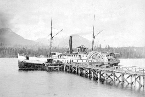 Sidewheel steamer Princess Louise at Comox, British Columbia, August 20, 1879.